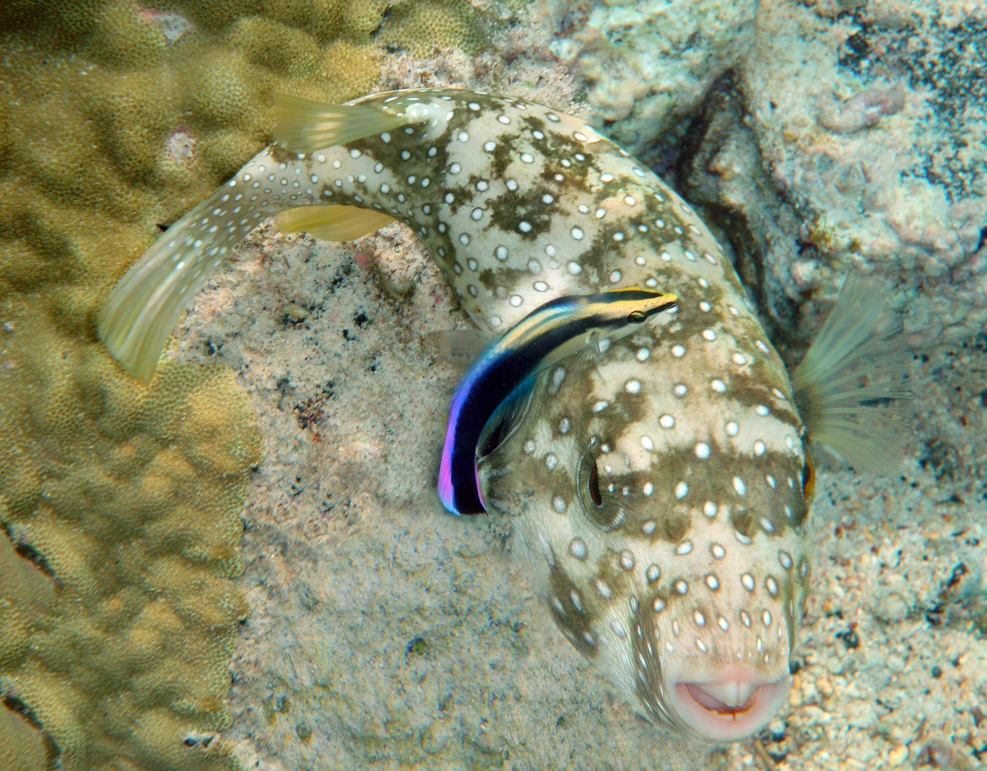 White-spotted puffer (Arothron hispidus) is being cleaned by Hawaiian cleaner wrasse, Labroides phthirophagus.